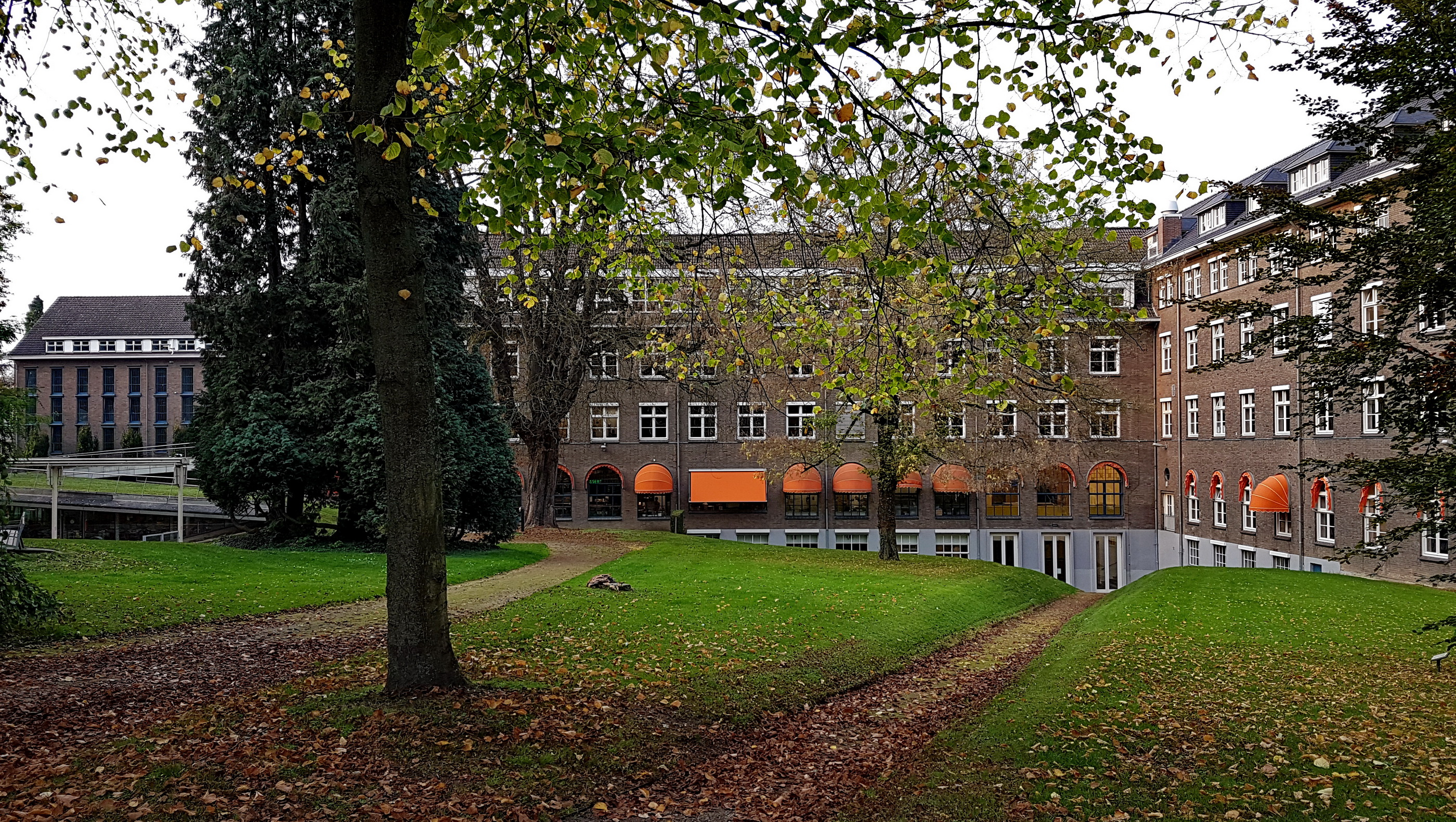 View from the garden of the Canisianum building in Maastricht, Netherlands. The Canisianum was built as a Jesuit monastery with a theological faculty. It is now the School of Business and Economics of the University of Maastricht.